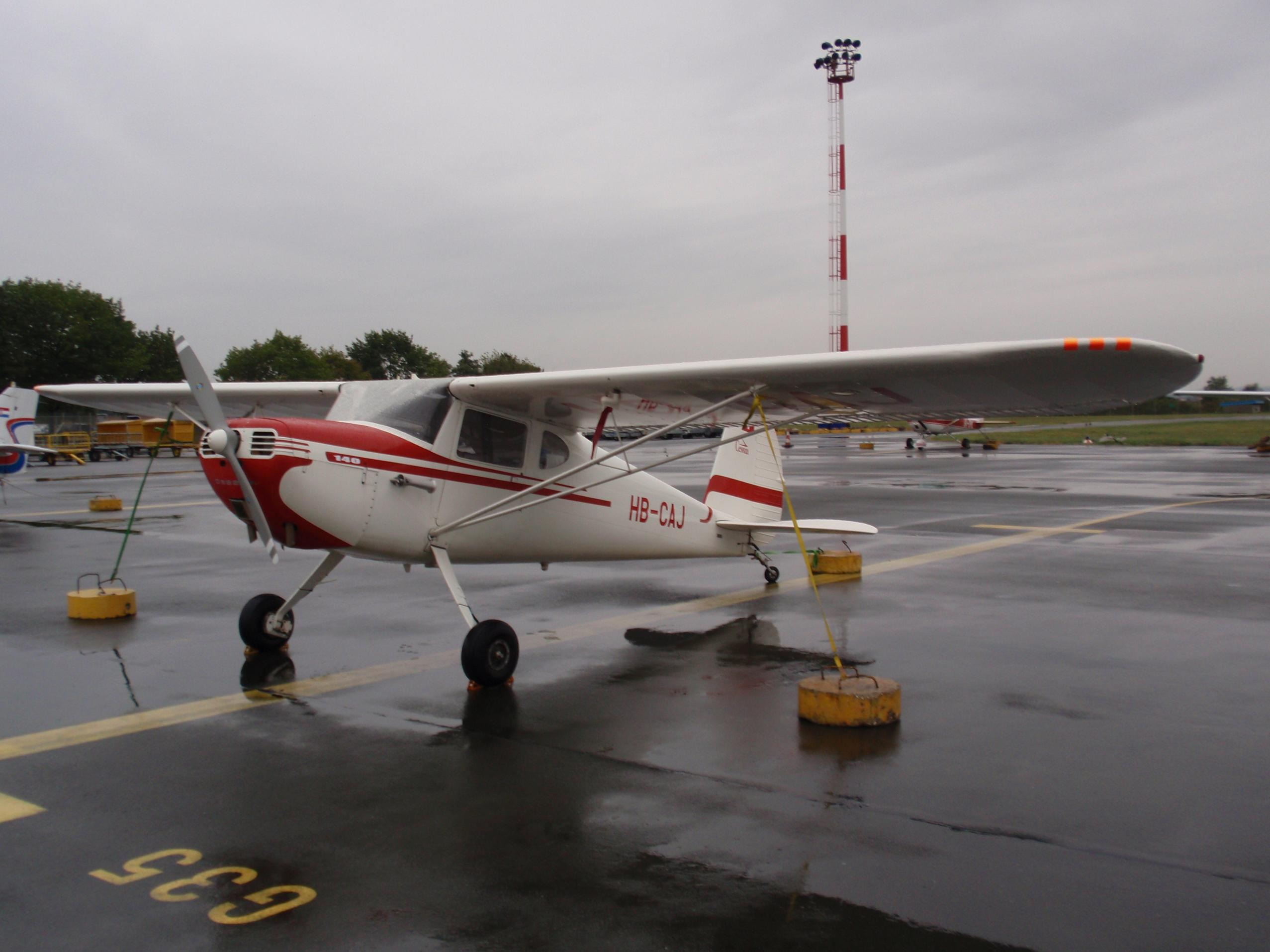 Cessna 140 on Zagreb Airport